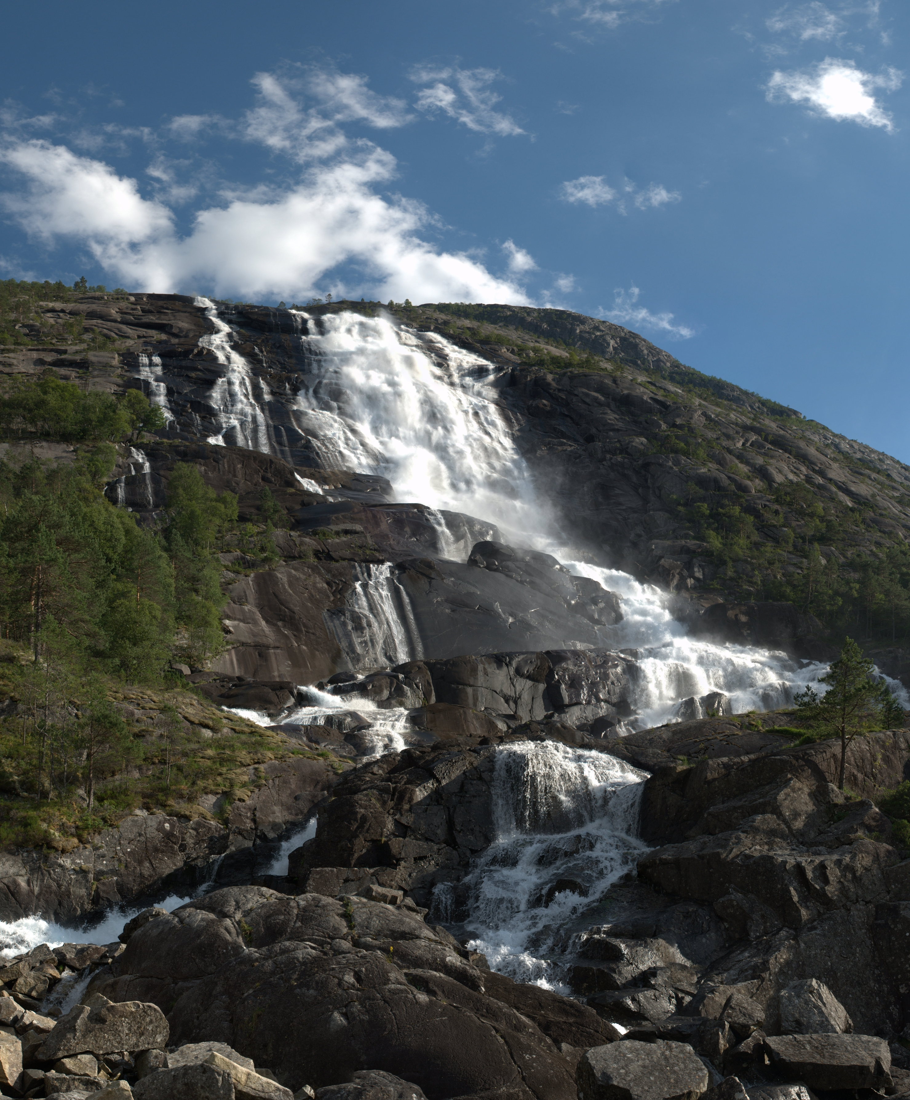 The waterfall Langfossen in Etne, Hordaland, Norway